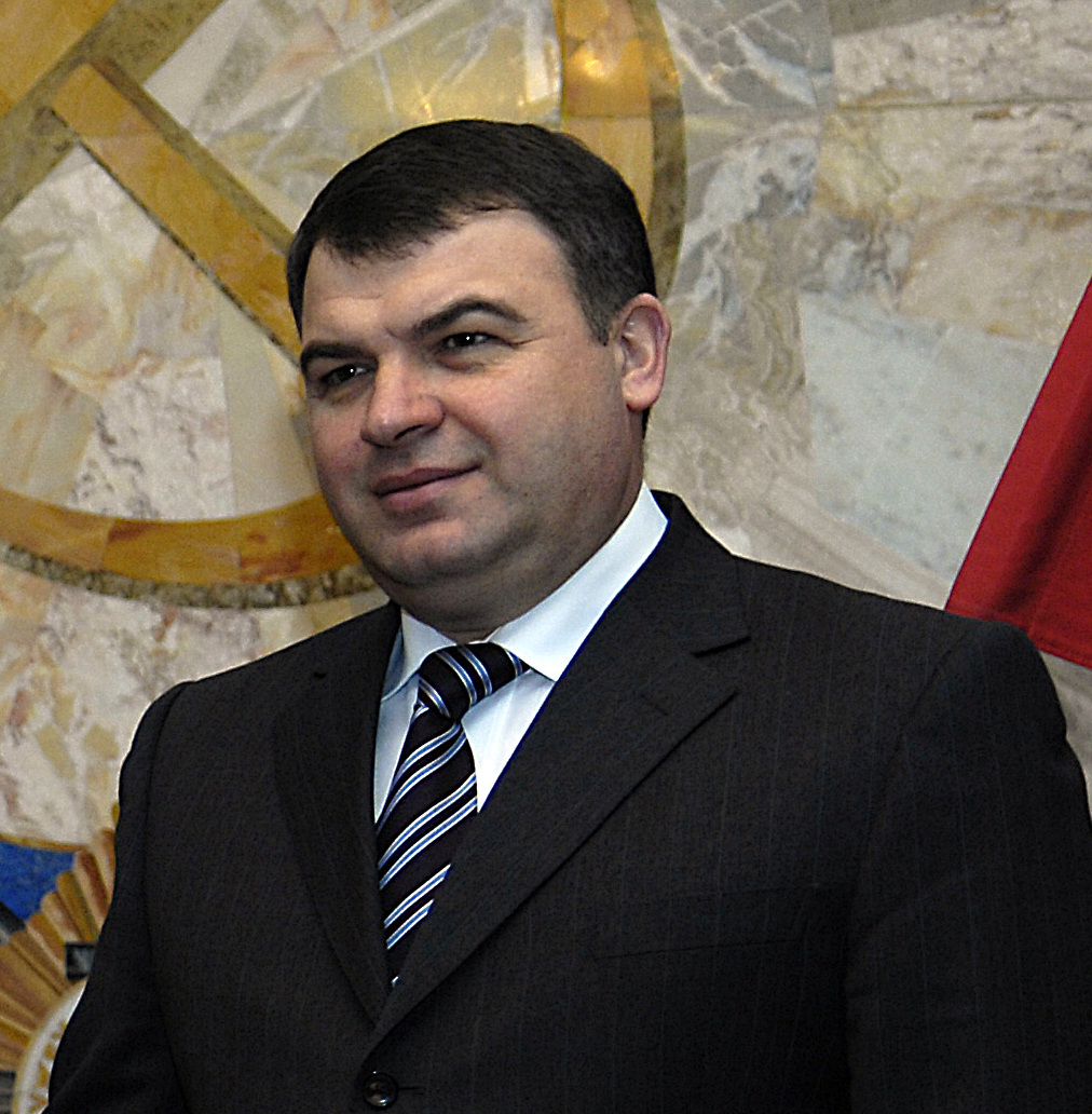 Anatoly Serdyukov (Анатолий Эдуардович Сердюков), Russian Minister of Defense